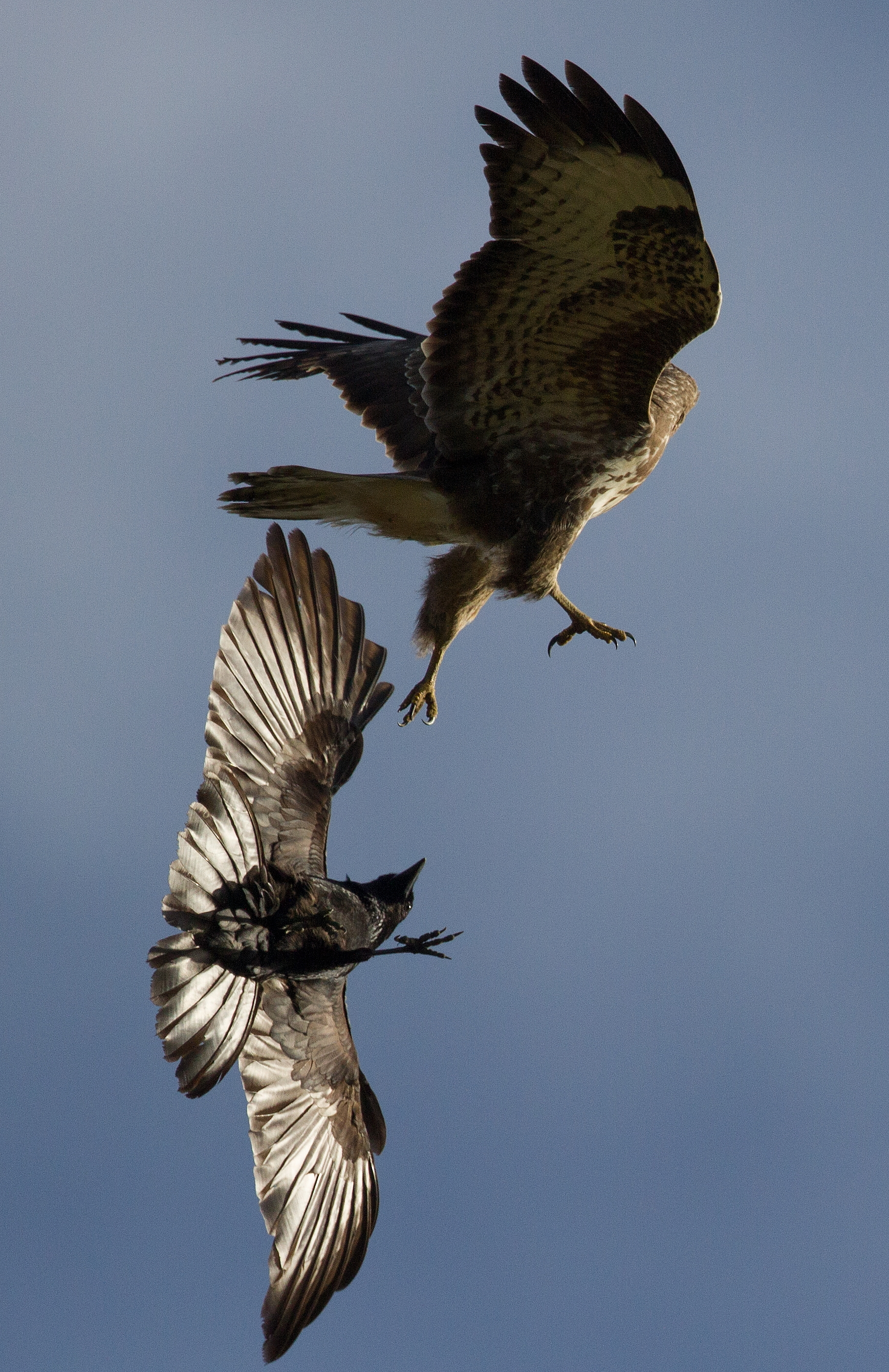 A crow harasses a Common buzzard in Wales.